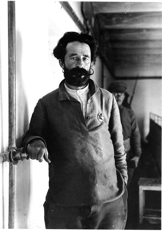 Philipp Kuzmich Mironov (1872–1921) was a Bolshevik leader during and after the Russian Revolution. A famous red cossacks ataman of Don cossack origin